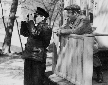 Louis ("Lubbe") Nordstrom (right) and his friend Carl (Calle) Möller (1893-1942) checking the views before a Norrland expedition in 1939.